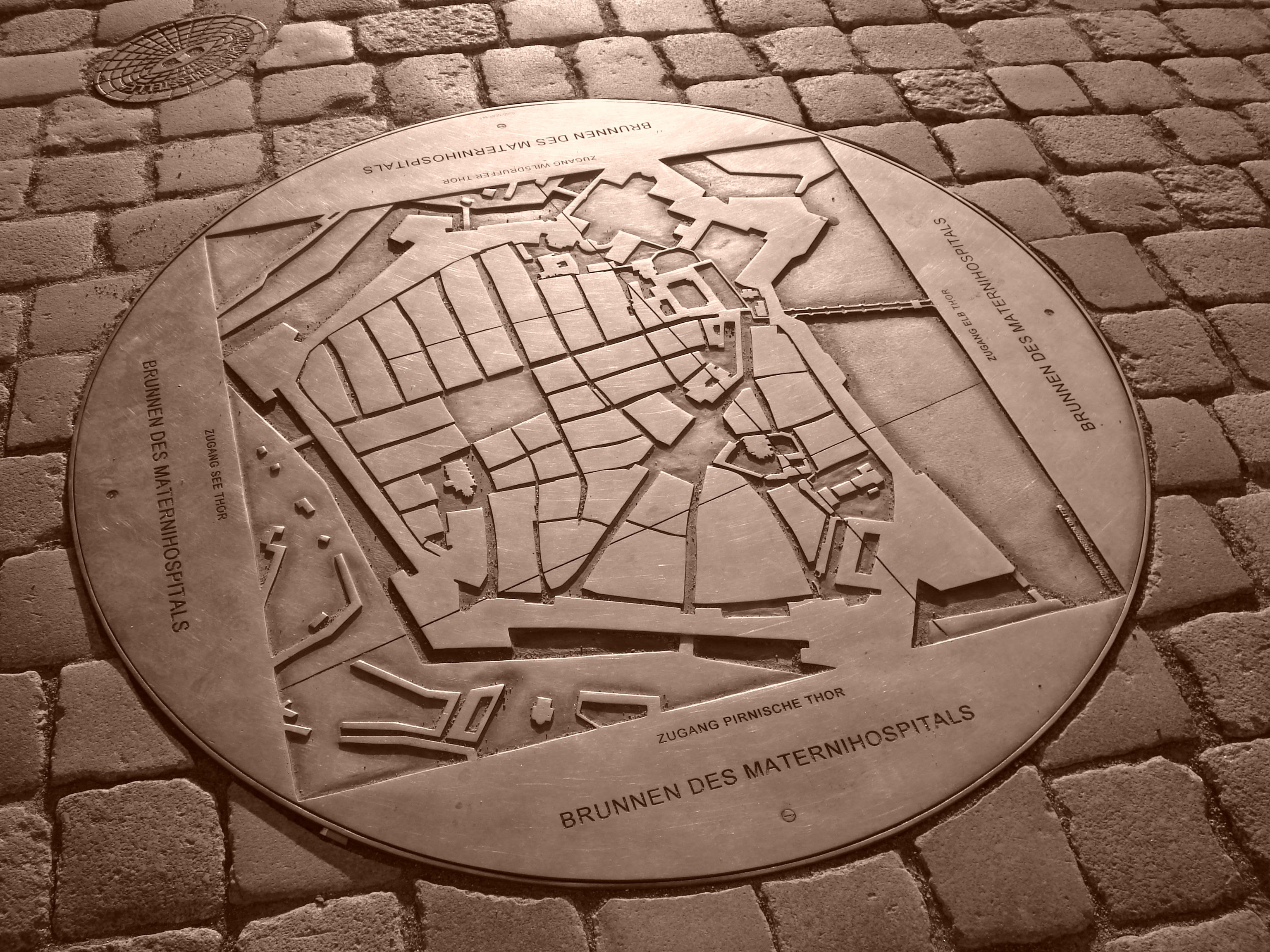 Our Lady's Church (Frauenkirche) in Dresden